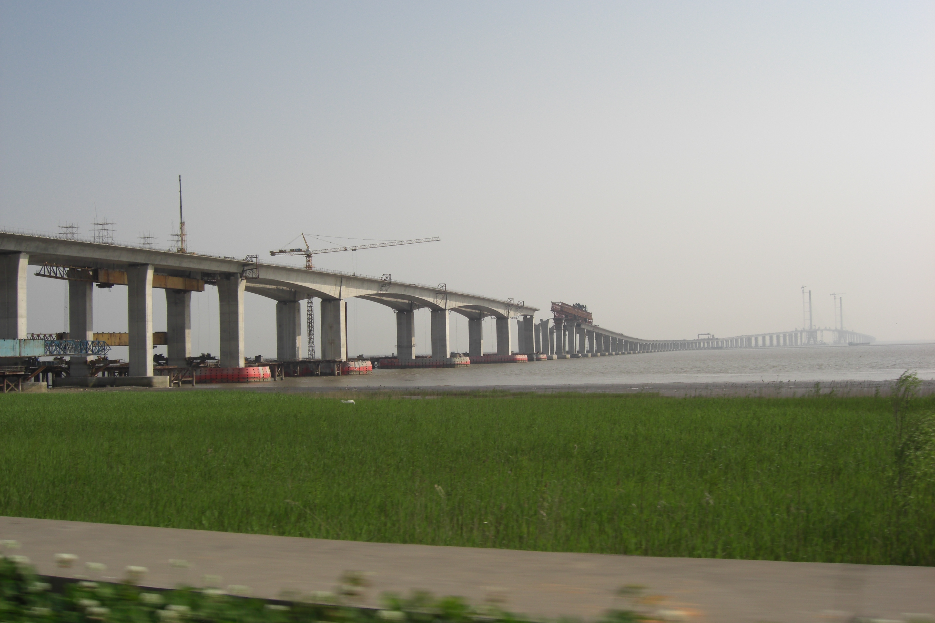 Chongming Island Bridge-tunnel under construction. Viewed from Chongming Island, May 2008.